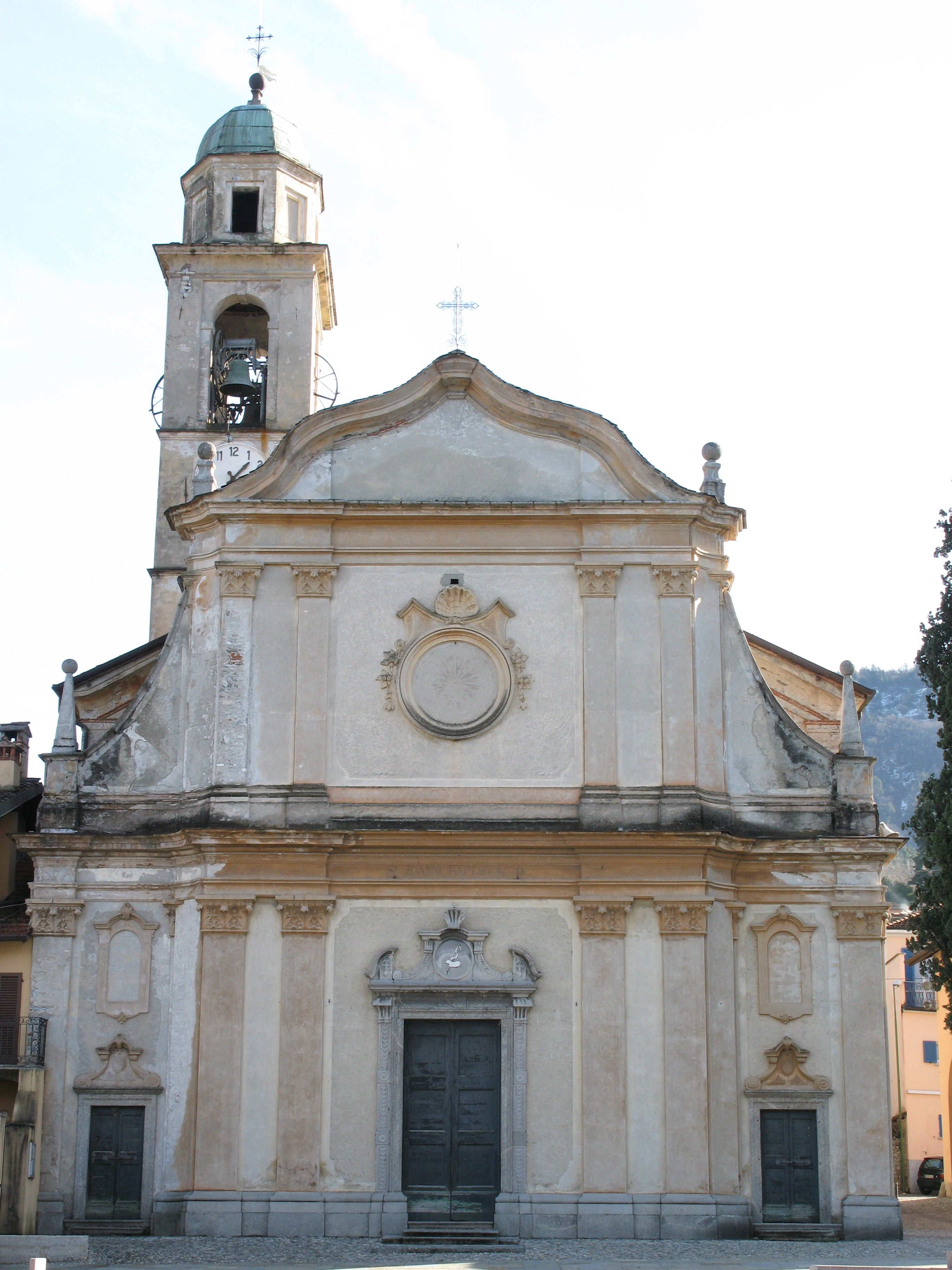 A view of Saint John the Baptist's church in Bellagio